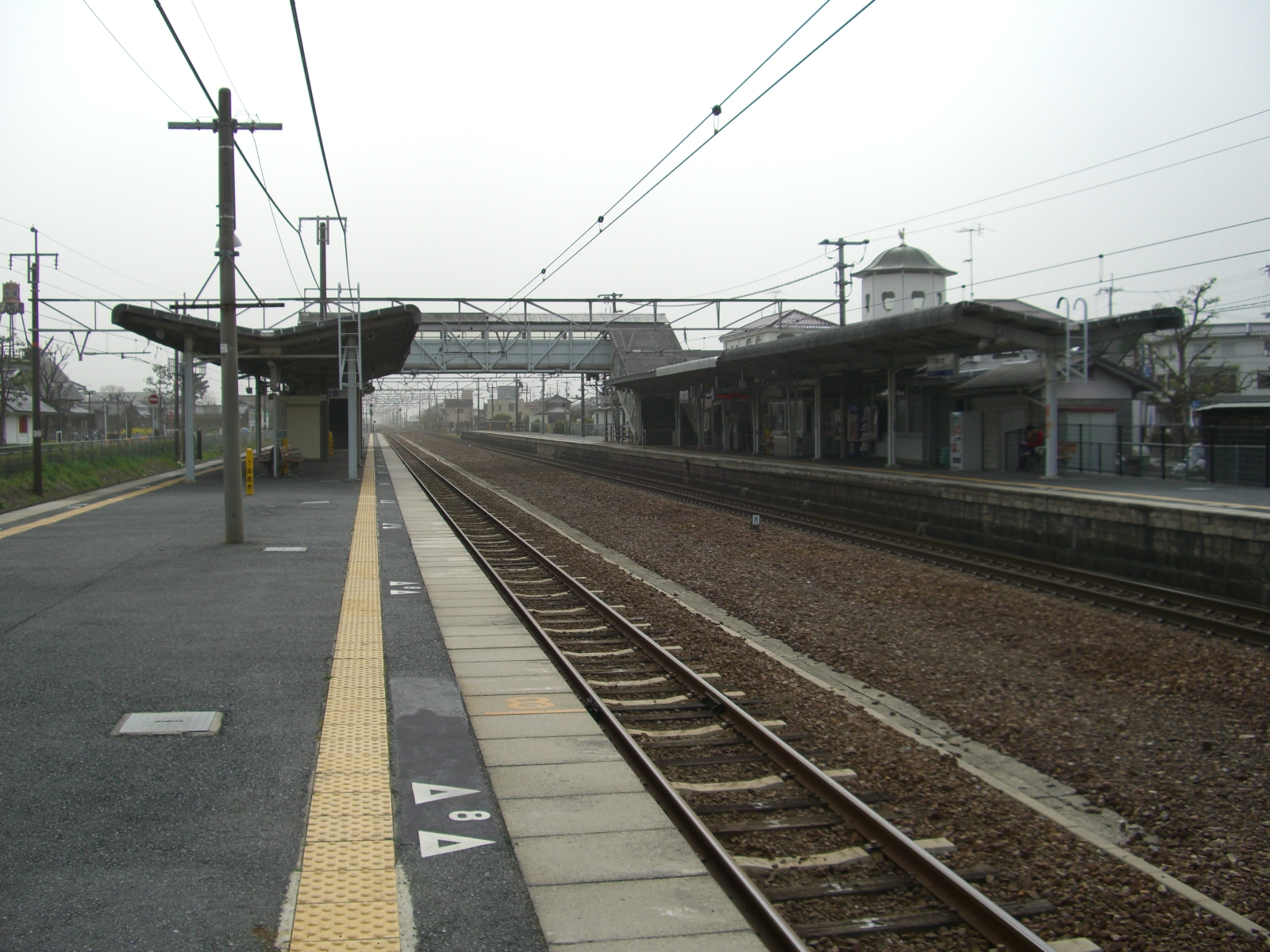 West Japan Railway Tōkaidō Main Line（Biwako Line） Azuchi Station Platform 西日本旅客鉄道 東海道本線（琵琶湖線） 安土駅 駅ホーム